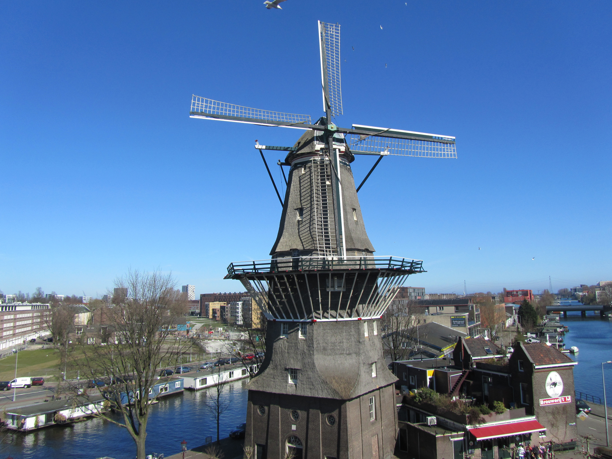 Looking east towards windmill De Gooyer at Funenkade in Amsterdam. De Gooyer is a so-called tower mill, a type of windmill built on top of a pedestal to raise it above the surrounding buildings. The beer brewery Brouwerij 't IJ is housed in the adjacent building, a former bathhouse.